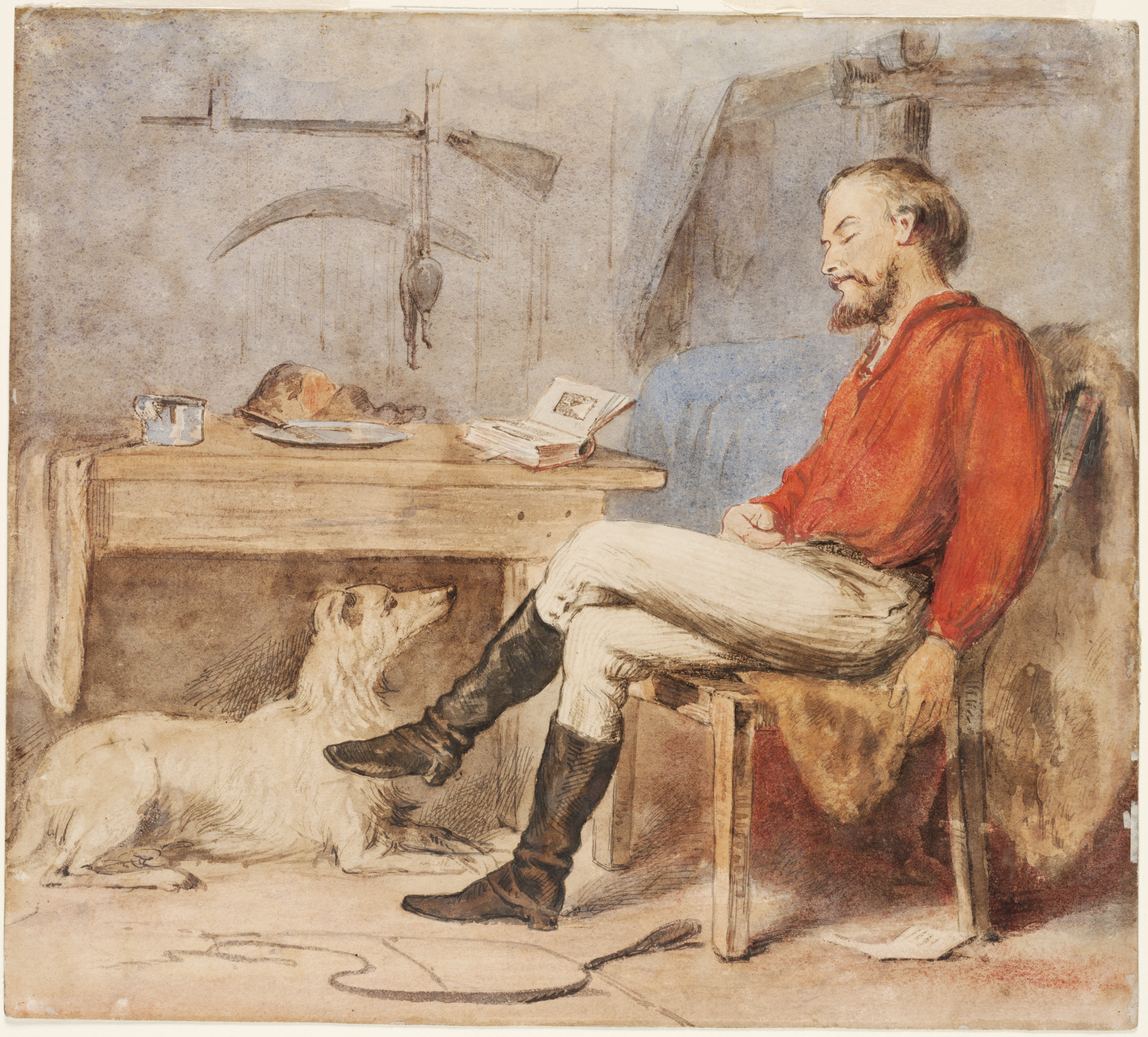 Painting by S.T.Gill from a sketchbook in the State Library of New South Wales showing a boundary rider, a stockman on a pastoral property